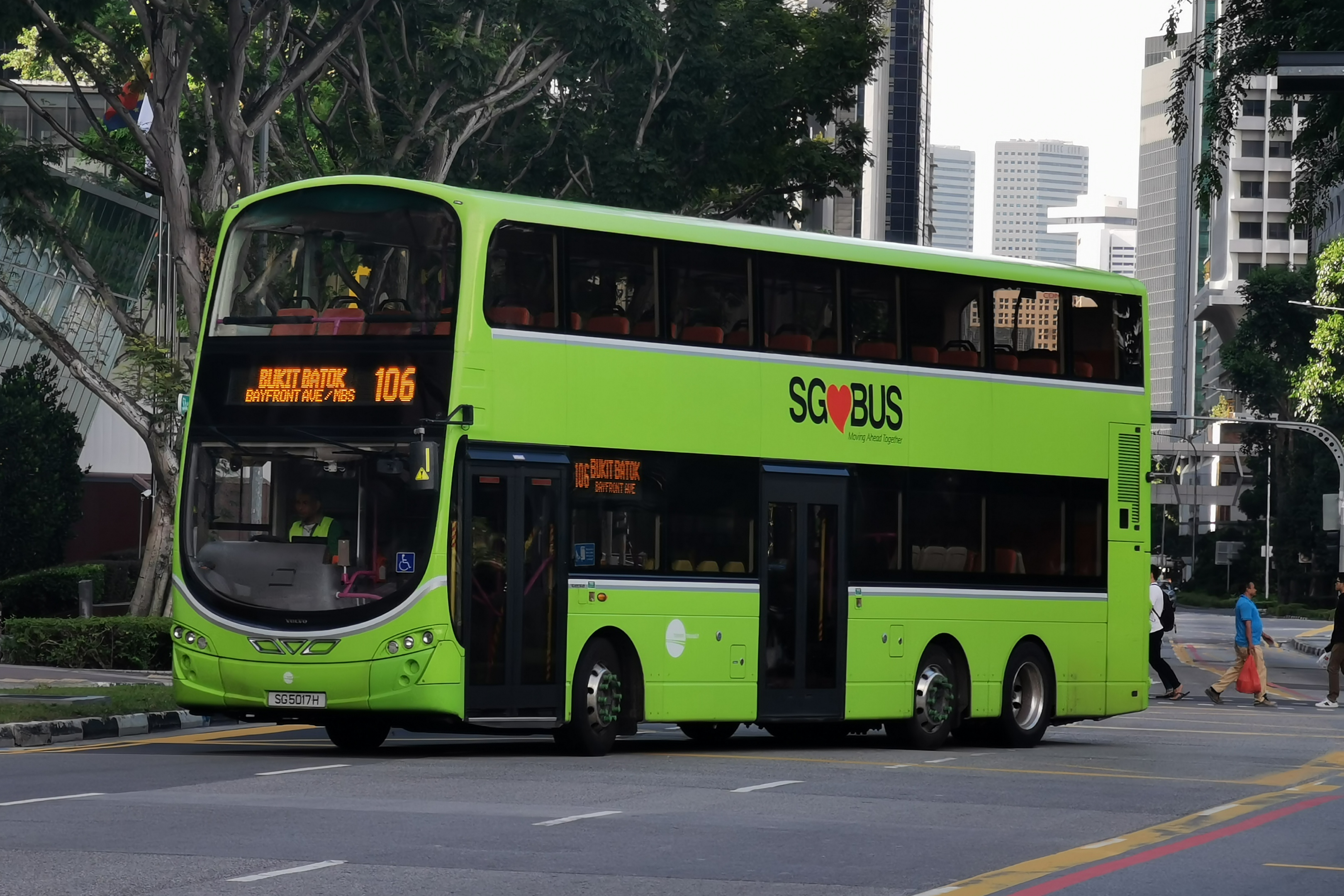 Tower Transit Singapore Volvo B9TL Wright Eclipse Gemini 2 - SG5017H 106 (1). This bus is leased from the Land Transport Authority of Singapore.